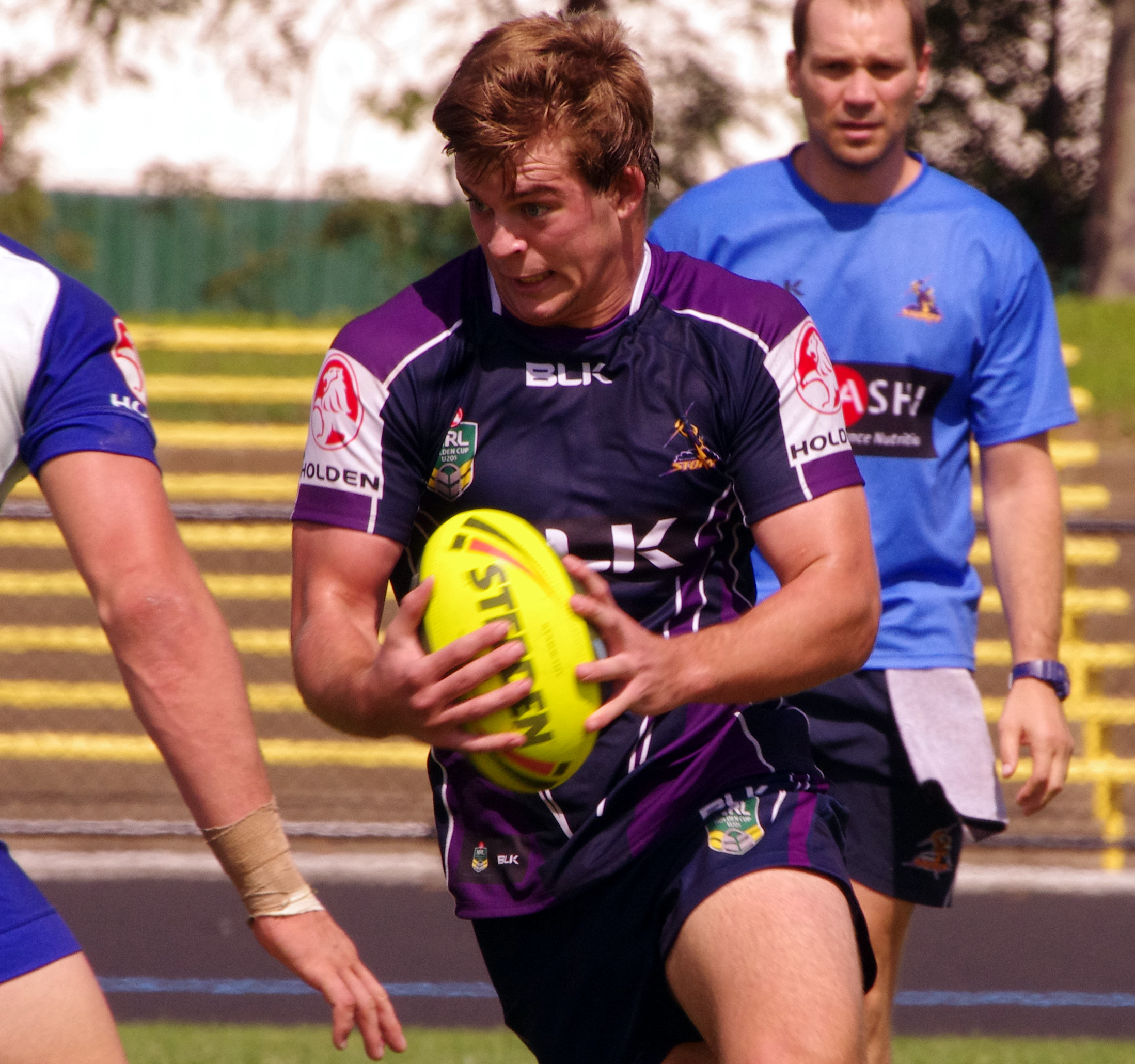 Christian Welch